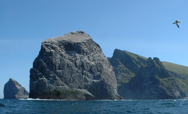 Stac Lee Stac an Armin on the left and Boreray on the right.